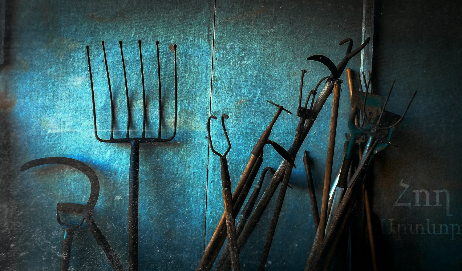 Արտևոր